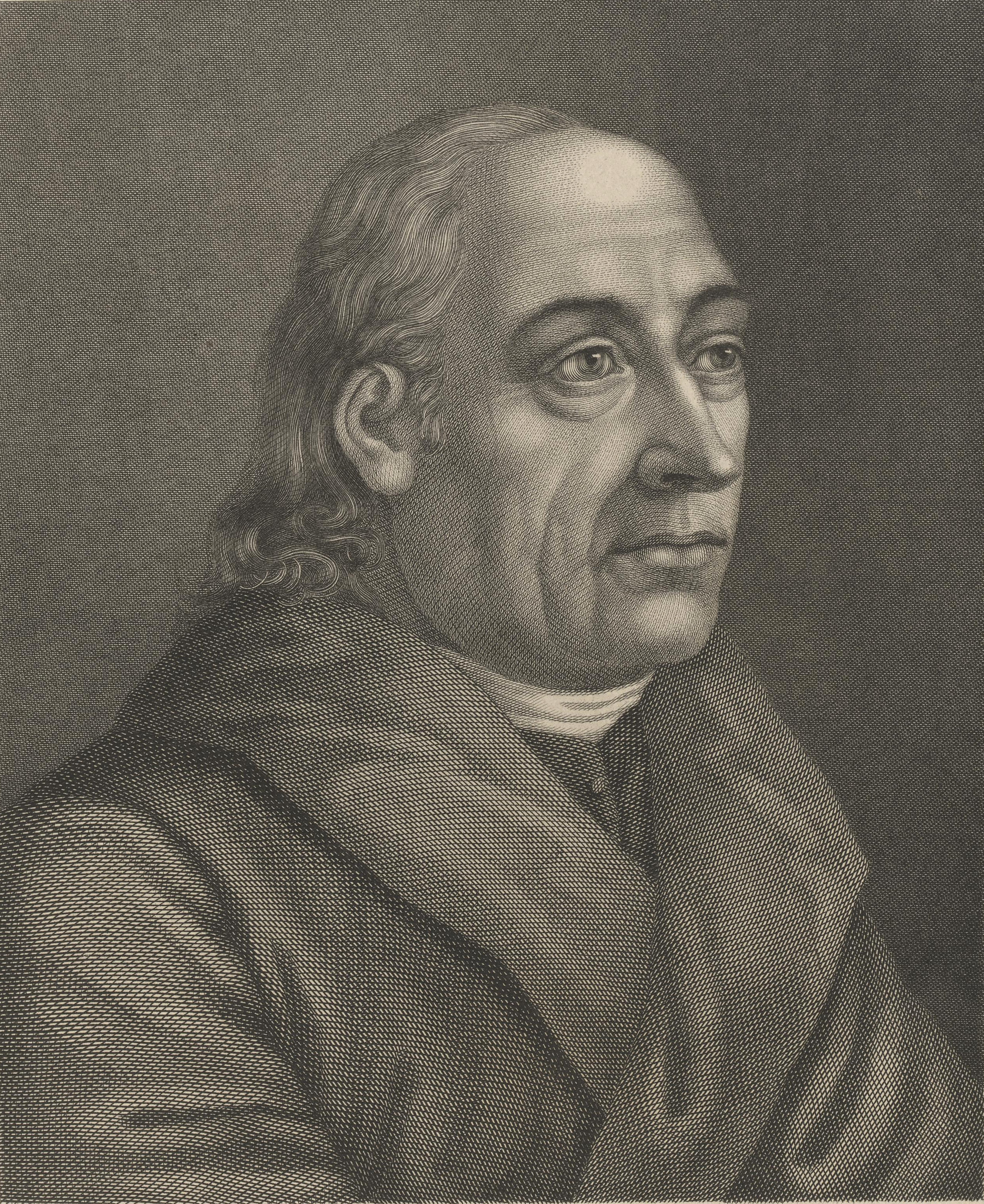 Depicted person: Johann Gottlob Immanuel Breitkopf